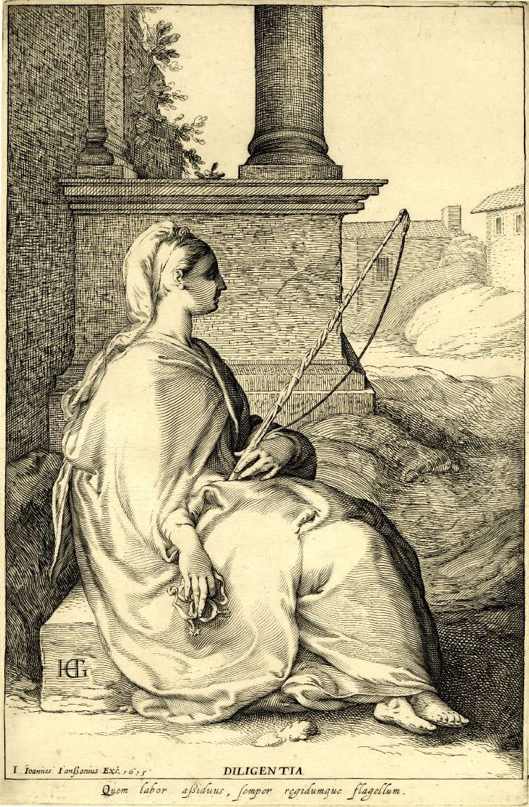 Three virtues. Plate 1: Diligence; whole-length, seated in right profile, holding a whip and spurs. Engraving by Jan Saenredam after Hendrik Goltzius.